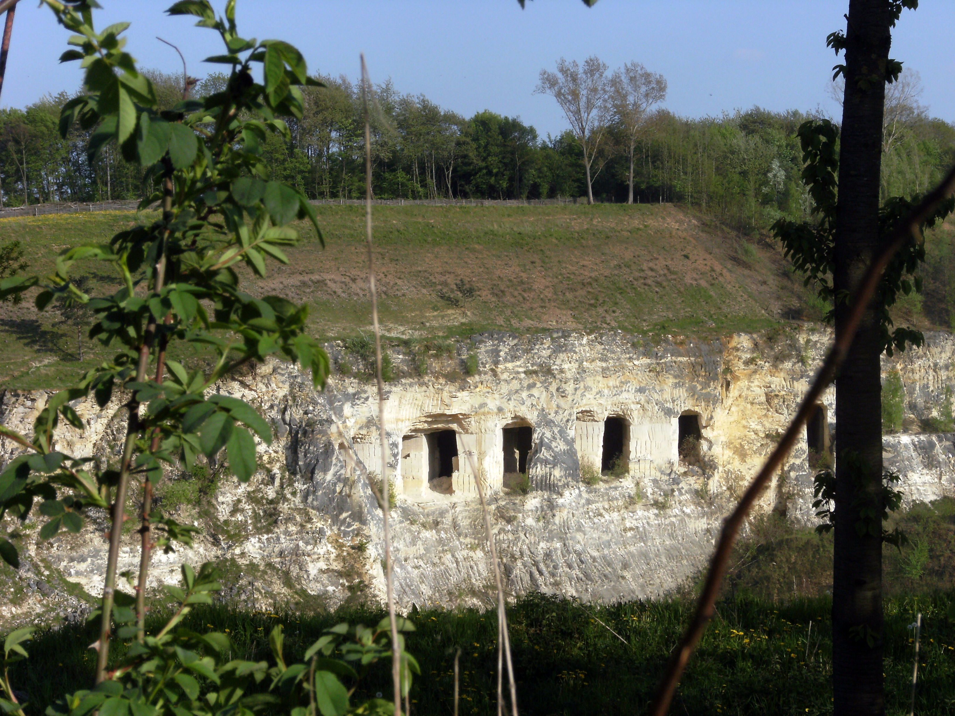 2013-05-04 in Maastricht; Views of ENCI Quarry.